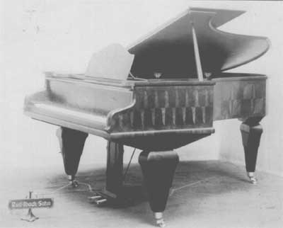 old photo from catalogue 1908